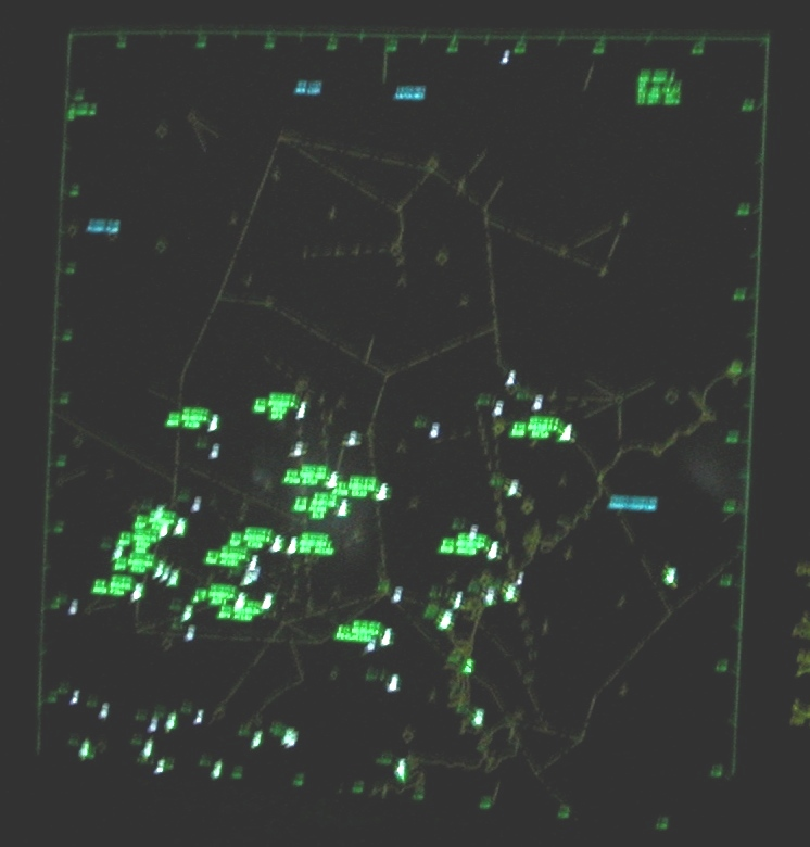 A photo of a radar scope at the Boston (A90) TRACON, Manchester Area, during an average day. Intended for use in Boston Consolidated TRACON article. A photo of a radar scope at the Boston (A90) TRACON, Manchester Area, during an average day. Intended for use in Boston Consolidated TRACON article.